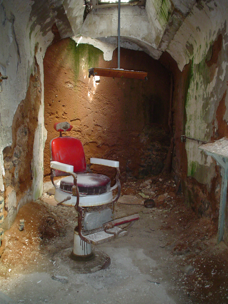 The remains of the barber shop at the Eastern State Penitentiary, Philadelphia, PA